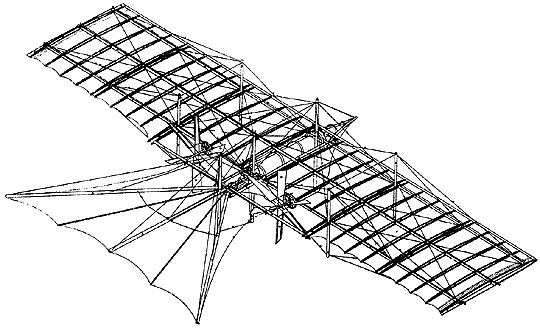 Patent drawing for the Henson Aerial Steam Carriage of 1843. Source: [1]. Lupo 09:42, 21 March 2006 (UTC)